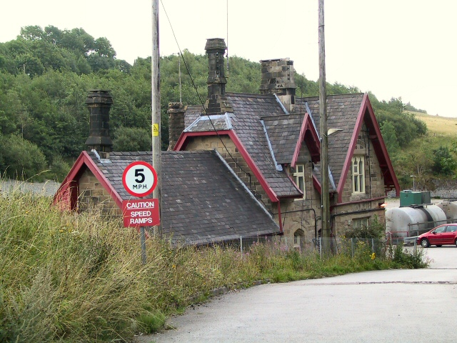 Peak Forest Station. The former station at Small Knowle End, which is now an HQ for the NW and Midlands Traincrew Depot.